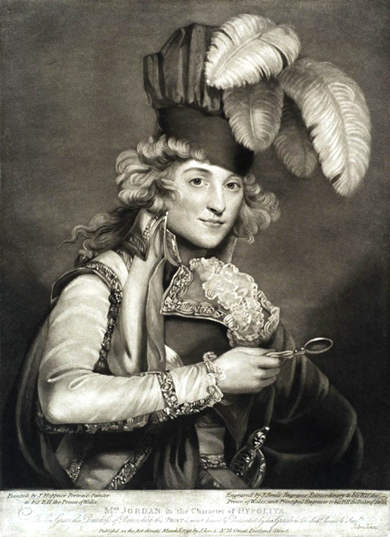 published [London]: J. Jones, March 1, 1791. Dorothea (Dorothy) Jordan nee Bland, mistress of King William IV of Great Britain.